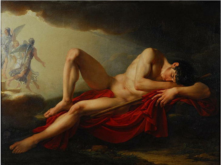 Jacob's Dream Musée Réattu Location10, rue du Grand-Prieuré, Arles, FranceCoordinates43° 40′ 45.02″ N, 4° 37′ 40.38″ E Established1868Web pageMusée RéattuAuthority control : Q1688538 VIAF: 149645757 ISNI: 0000 0001 2348 4405 LCCN: n81103252 SUDOC: 028717511 BNF: 11865028h WorldCat institution QS:P195,Q1688538